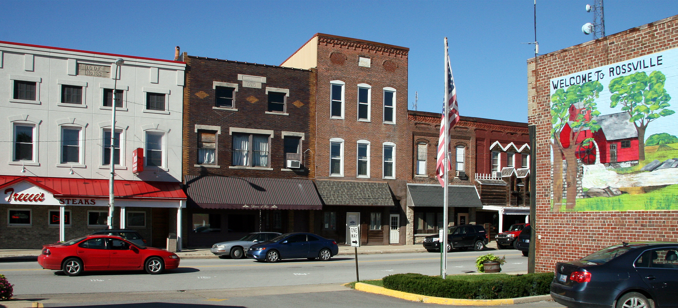 Buildings along West Main Street in Rossville, Indiana.